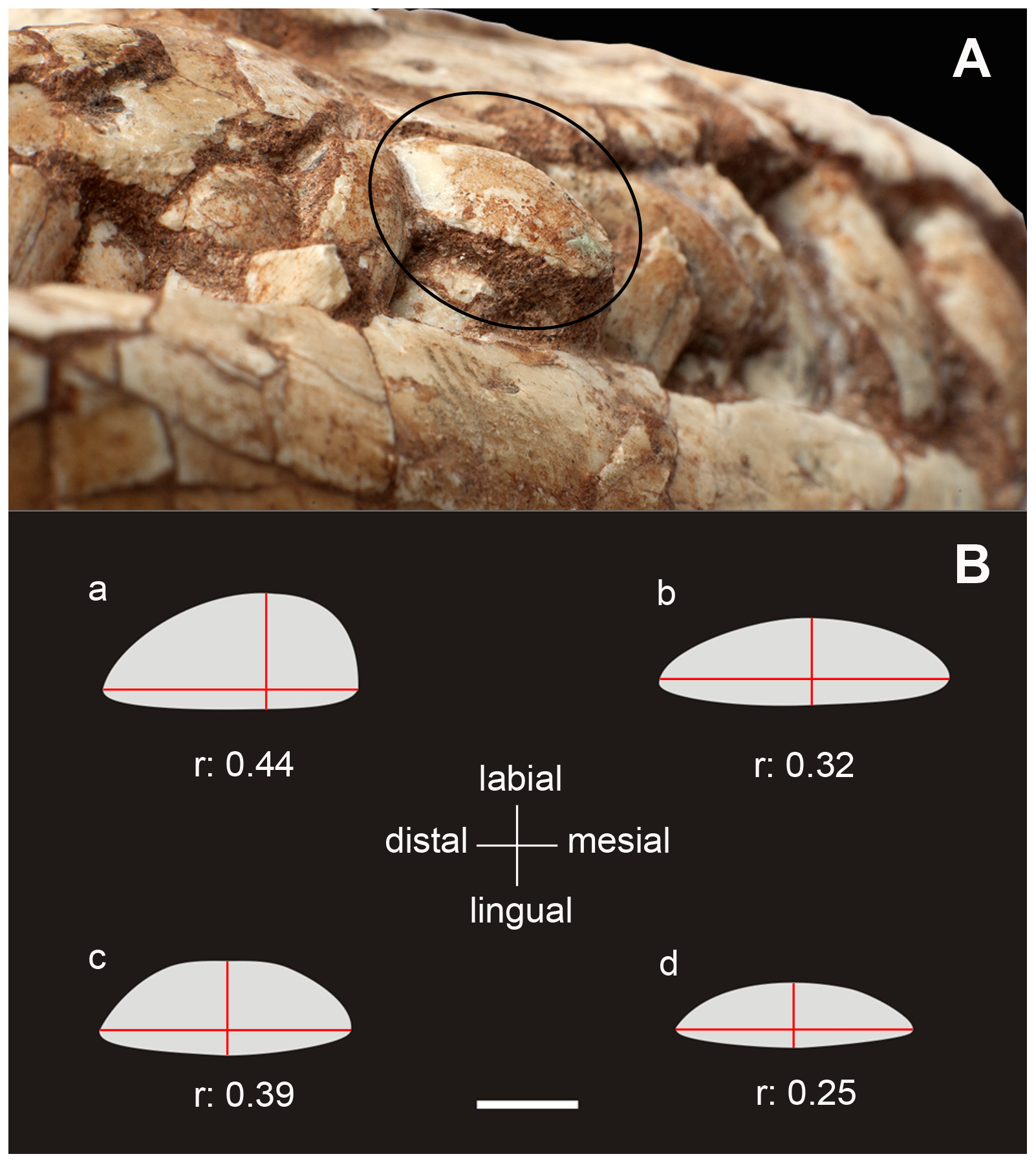 Maxillary teeth of basal sauropodomorphs. A, photograph of the teeth of Leyesaurus marayensis (PVSJ 706), the circle shows fifth maxillary tooth in distal view; B, Cross-sections at mid-height of an anterior maxillary tooth of Leyesaurus PVSJ 706 (a), Adeopapposaurus PVSJ 568 (b), Massospondylus SAM-PK-K1314 (c), and Riojasaurus PVSJ 849 (d). Red lines represent the maximum mesiodistal length and labiolingual width at mid-height of the tooth. Abbreviations: r, ratio between mesiodistal length and labiolingual width. Scale bar equals 2 mm.